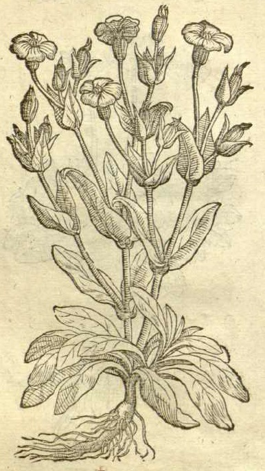 engraving of Lychnis coronaria